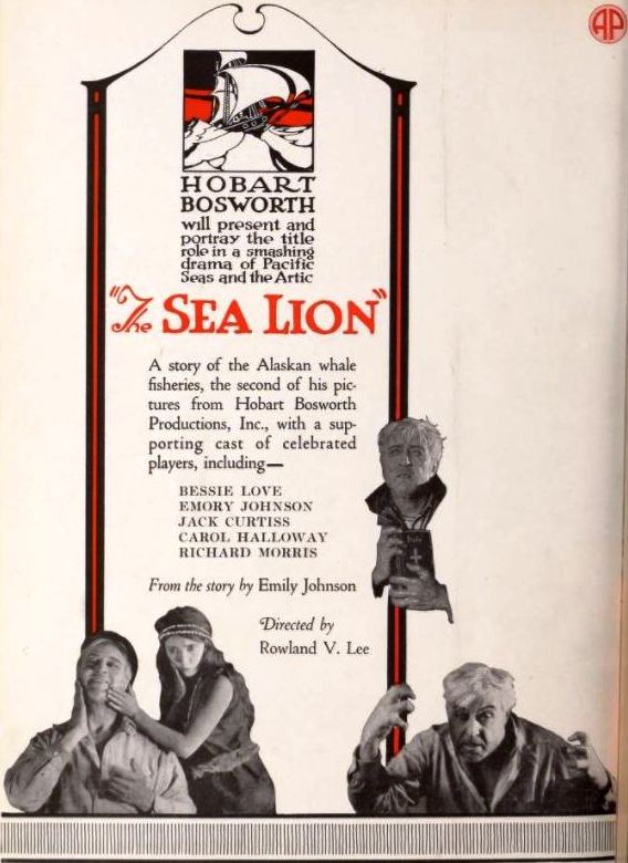 Advertisement for the American adventure film The Sea Lion (1921) with Hobart Bosworth and Bessie Love, from the insert after page 10 of the August 27, 1921 Exhibitors Herald.